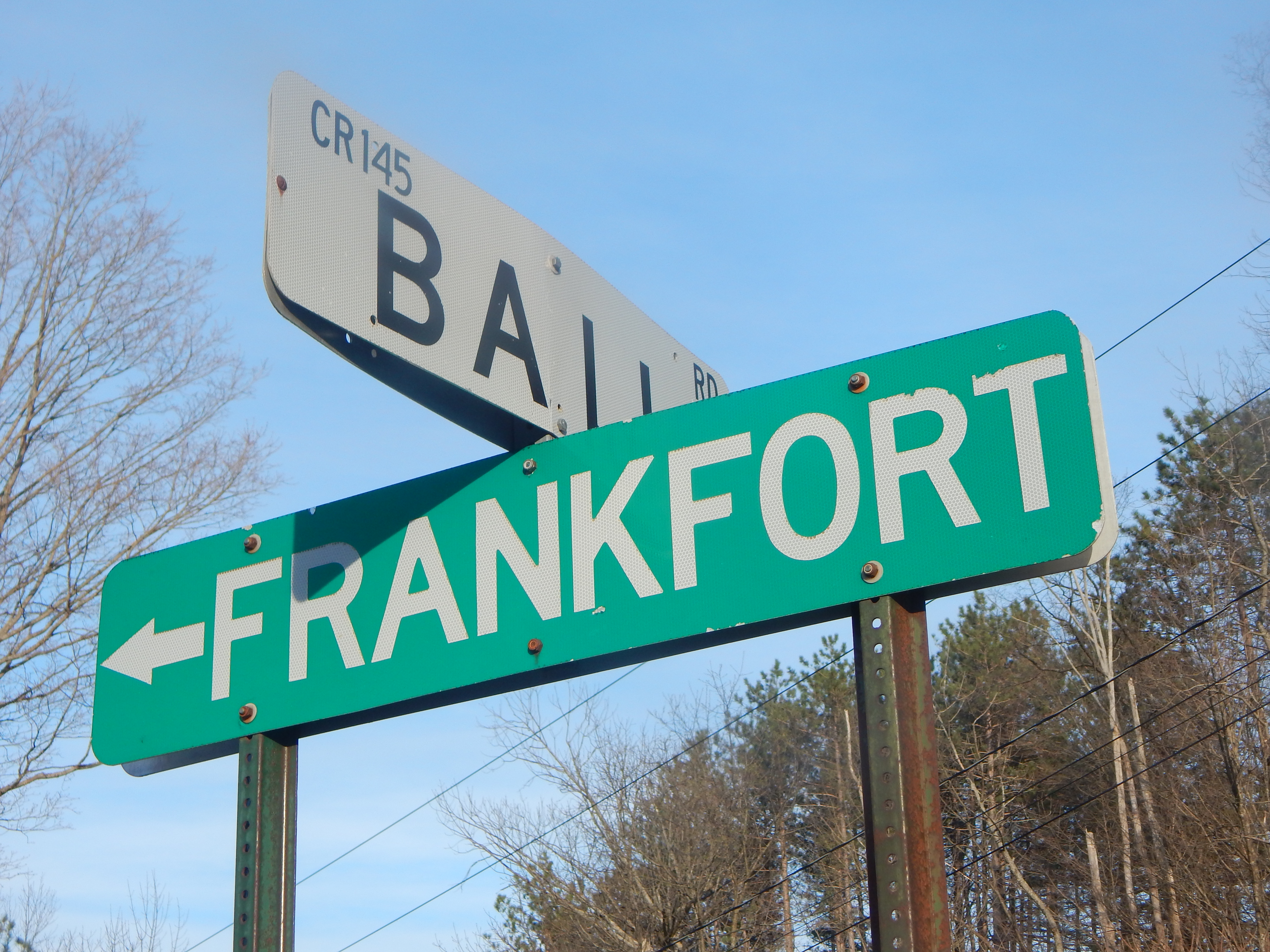 County Route 145 signage in Gulph, New York.